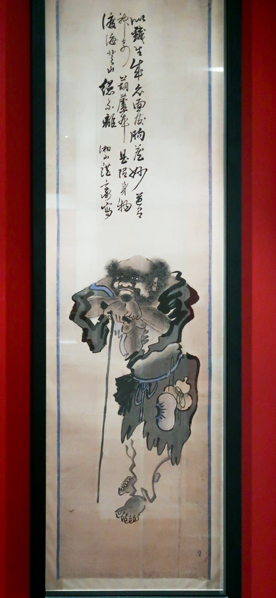 Li Tieguai. Taoist immortal. China 17th c. Toulon Asian Arts Museum.